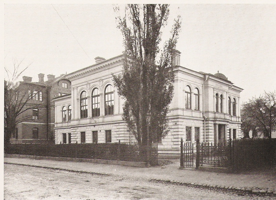 Gästrike Hälsinge nation house Uppsala before extension 1880-1912